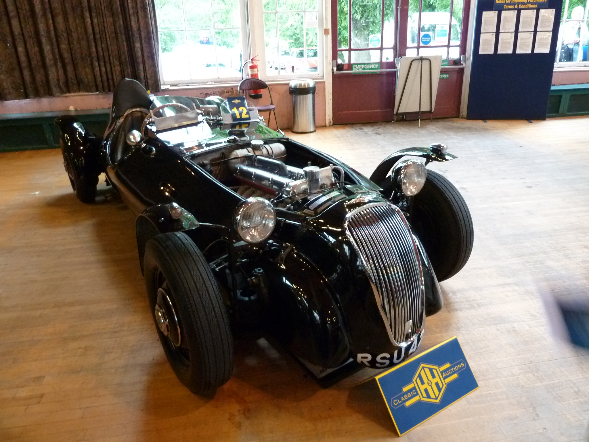 1947 Lagonda Prototype 'LBS EX1' The first of the three known prototype '2.5 Litre' saloons, this very car - chassis number 'LBS EX1' - was seemingly left behind when W.O. Bentley and Donald Bastow quit the new Aston Martin Lagonda concern. The accompanying history file speculates that 'LBS EX1' was converted into its current sports-racer guise thereafter and presented - alongside a rival Aston Martin proposal - to David Brown as a potential 1949 Le Mans 24-hours entrant.